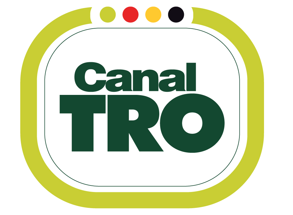 Canal tro logo.